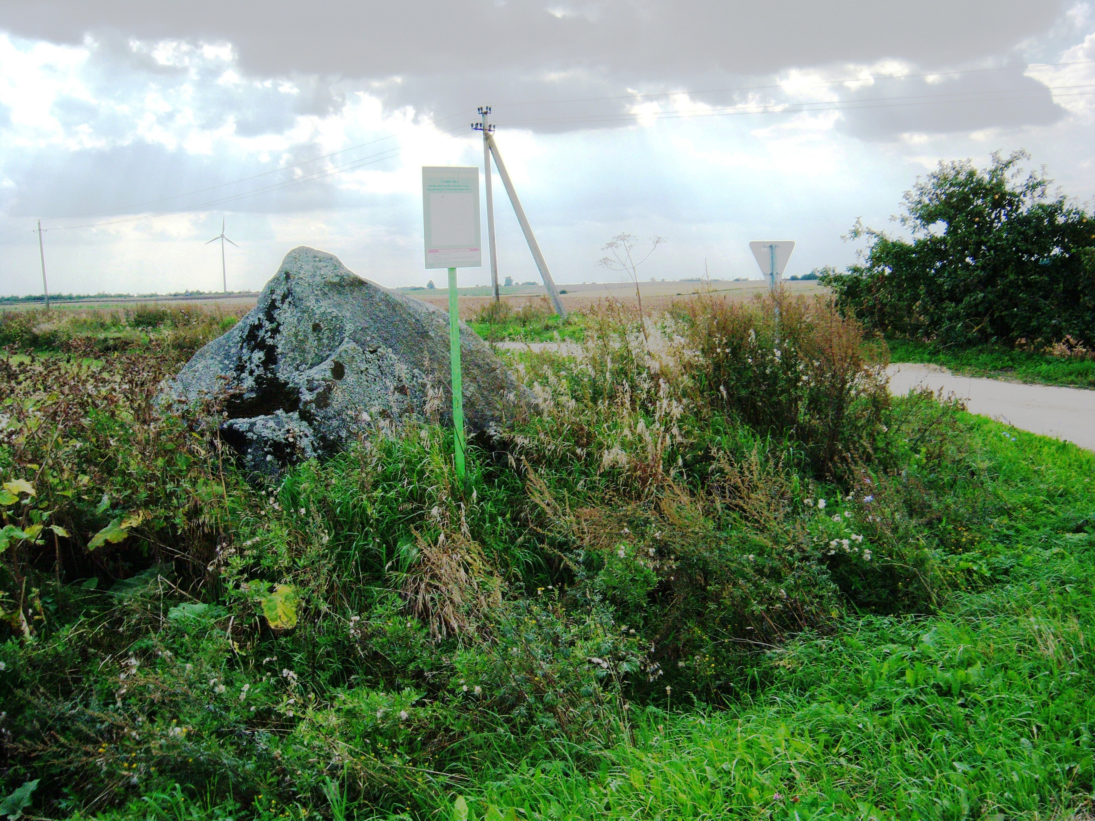 Totoriškės stone, Kaišiadorys District, Lithuania